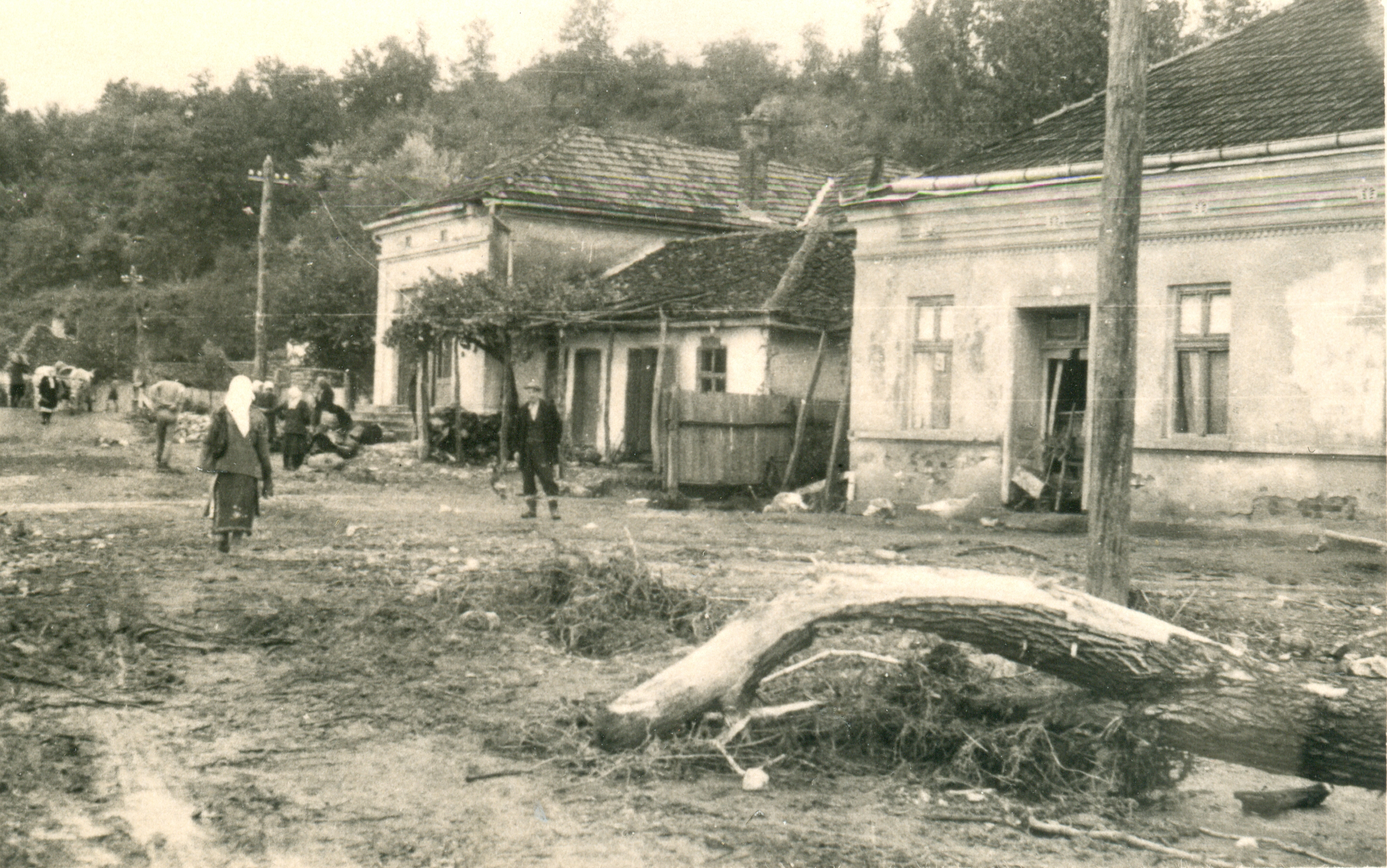 The consequences of natural disasters in Brza Palanka near Kladovo 1956. Srpski (latinica): Posledice elementarih nepogoda u Brzoj Palanci kod Kladova 1956.